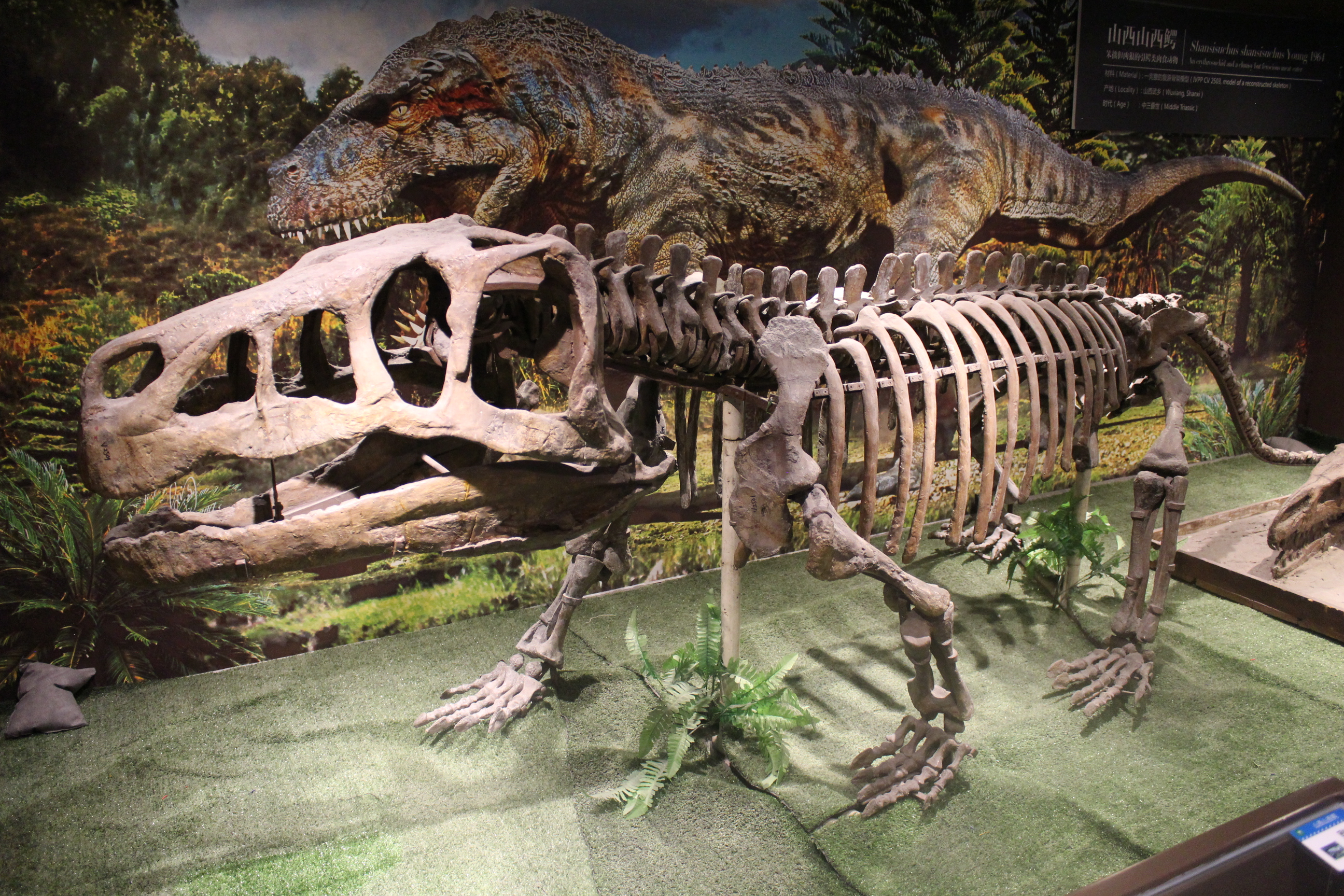 Skeletal cast mount of Shansisuchus shansisuchus on display at the Paleozoological Museum of China.